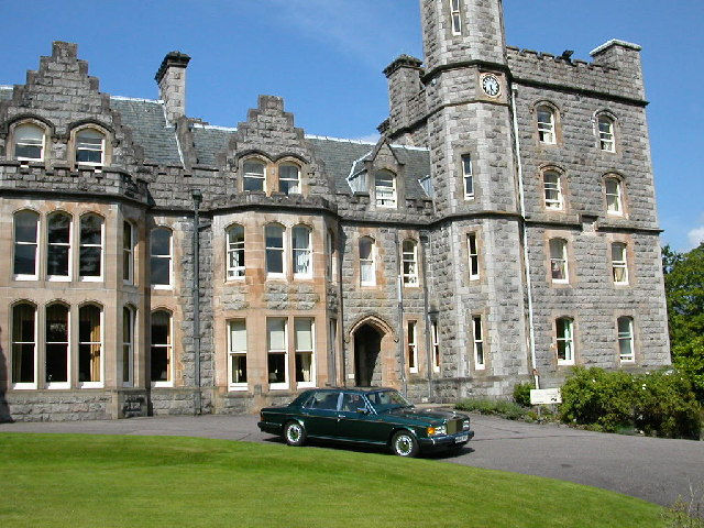 Inverlochy Castle. Inverlochy Castle Hotel open to the public on the A82 north of Fort William.